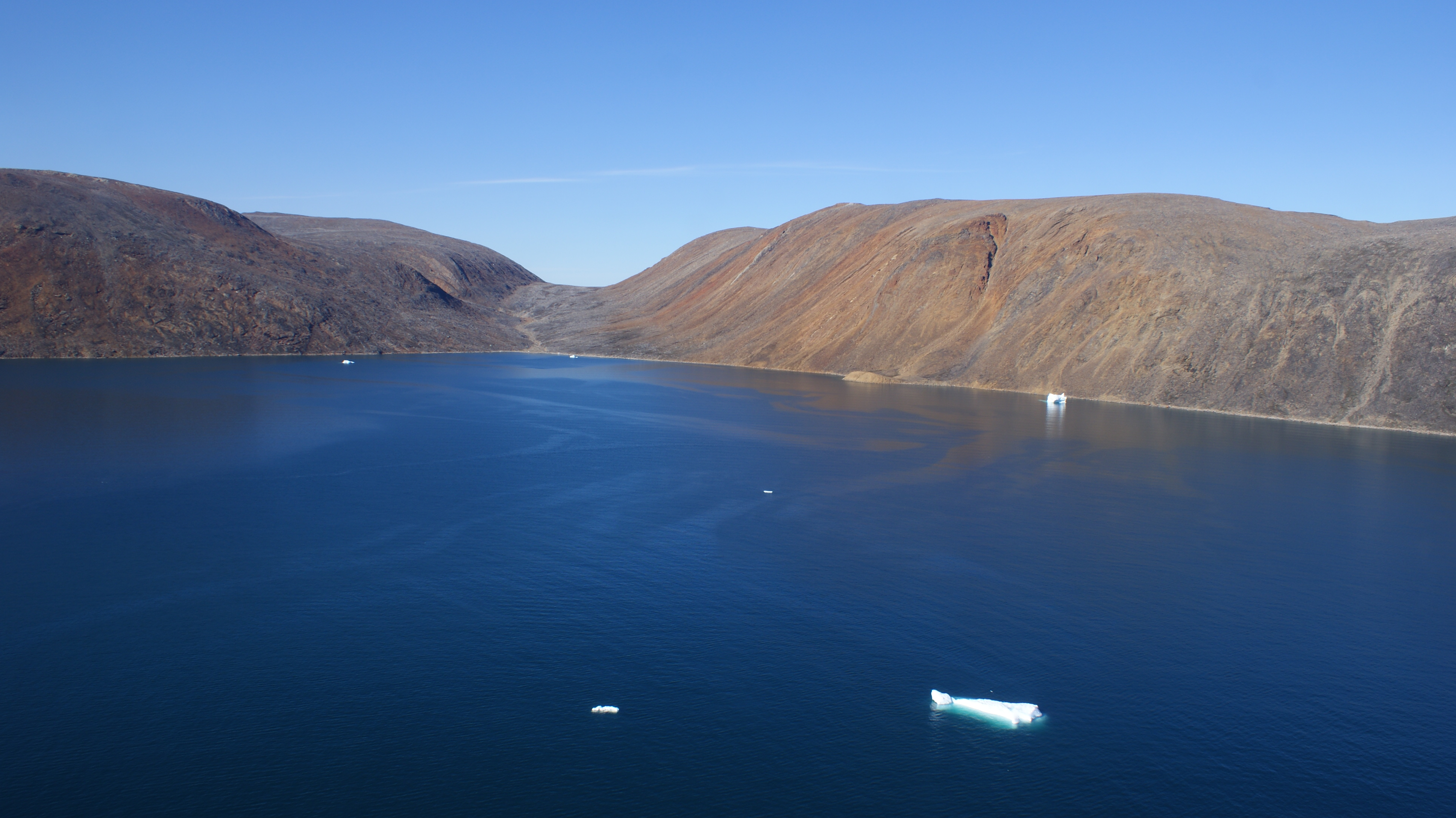 Aerial view of Nuussuaq Peninsula, and the inlet of Sugar Loaf Bay near the Nuussuaq settlement, Upernavik Archipelago, Greenland. Photographed from the Air Greenland Bell 212 during the Kullorsuaq-Nuussuaq flight.